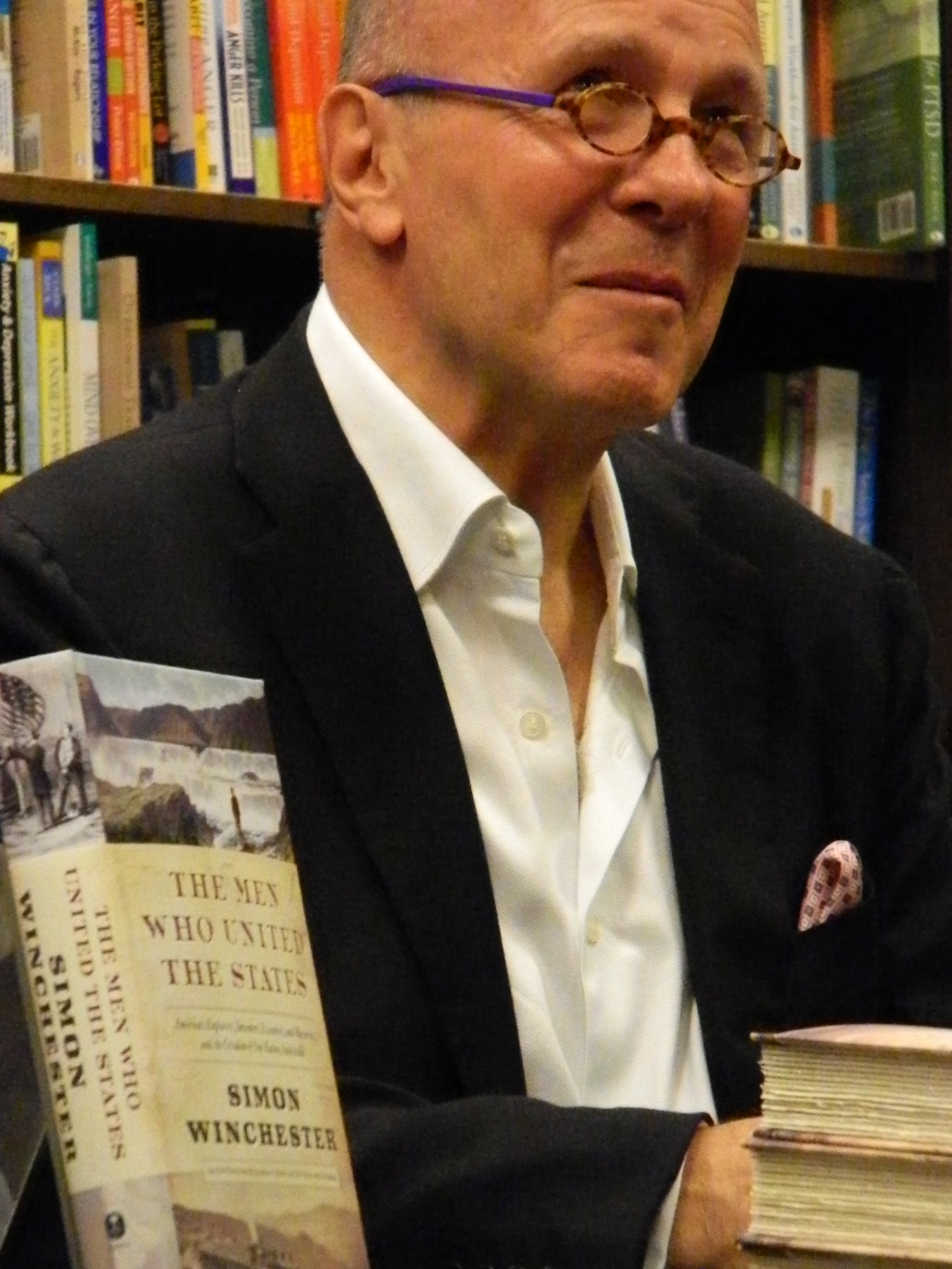 Winchester at New York Barnes & Noble for book signing and discussion, Oct. 21, 2013.